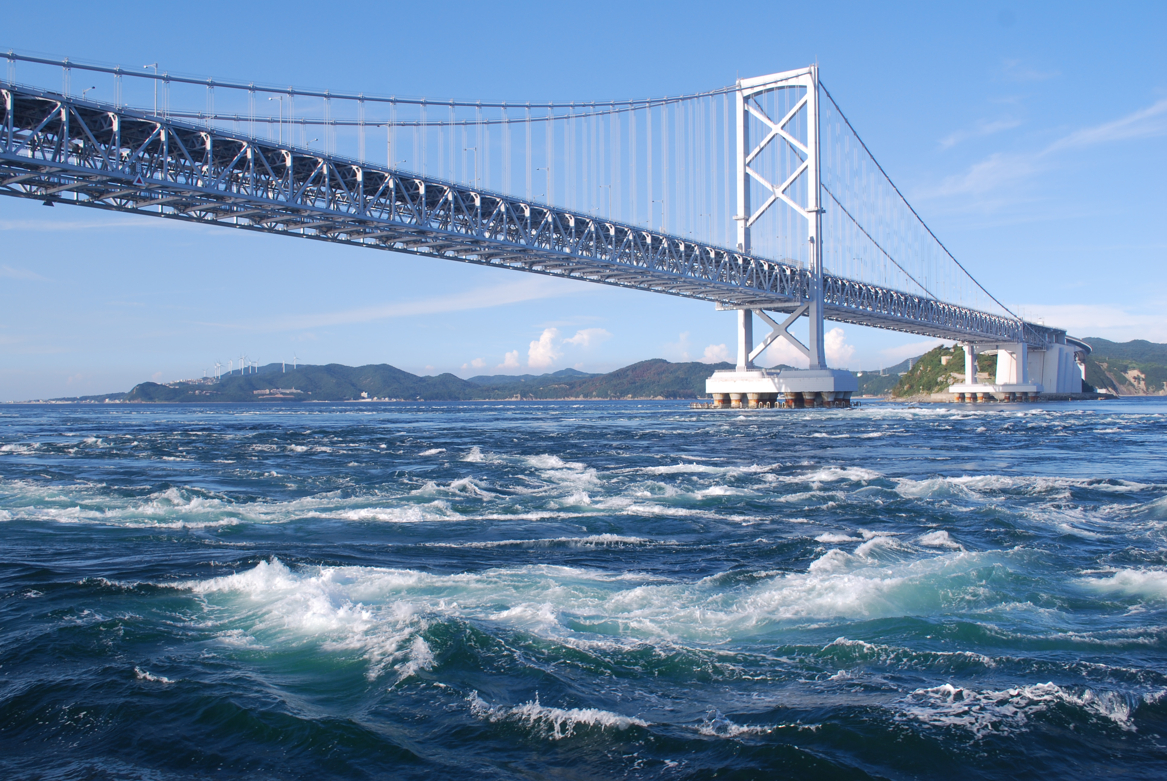 Onaruto-bridge and Naruto Channel,Naruto-city,Japan